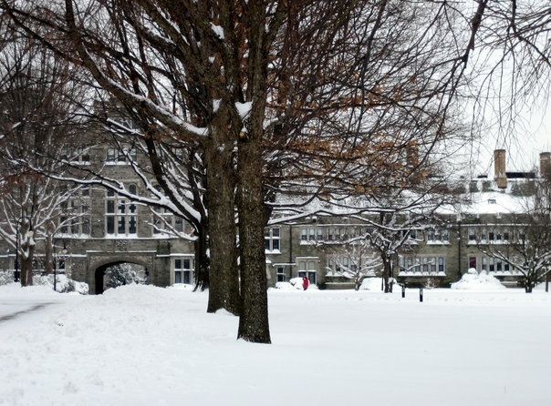 This photo was taken at Bryn Mawr College.